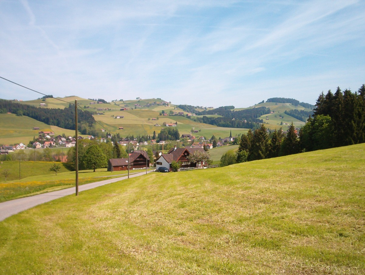 Village of Schönengrund in the Swiss canton of Appenzell Ausserrhoden, seen from the Hochhamm side.